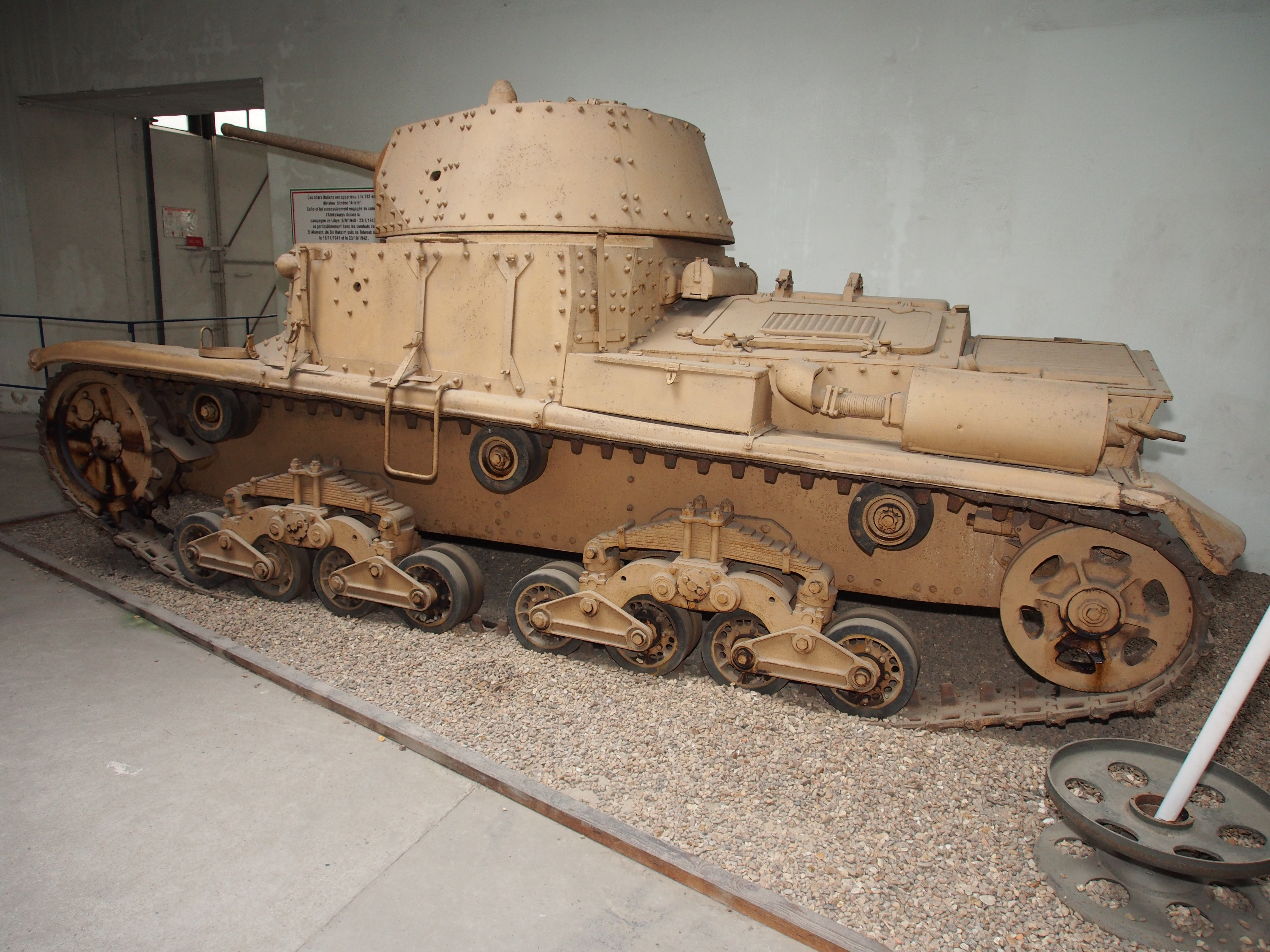 Photographed in the Musée des Blindés, France.